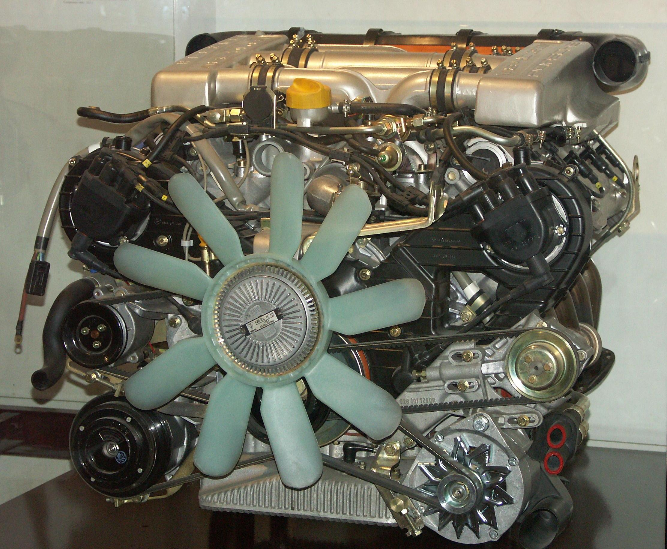 A Porsche 928 S3 (288 PS) engine on exhibition in Deutsches Museum (Munich). photo Jean-Patrick Donzey